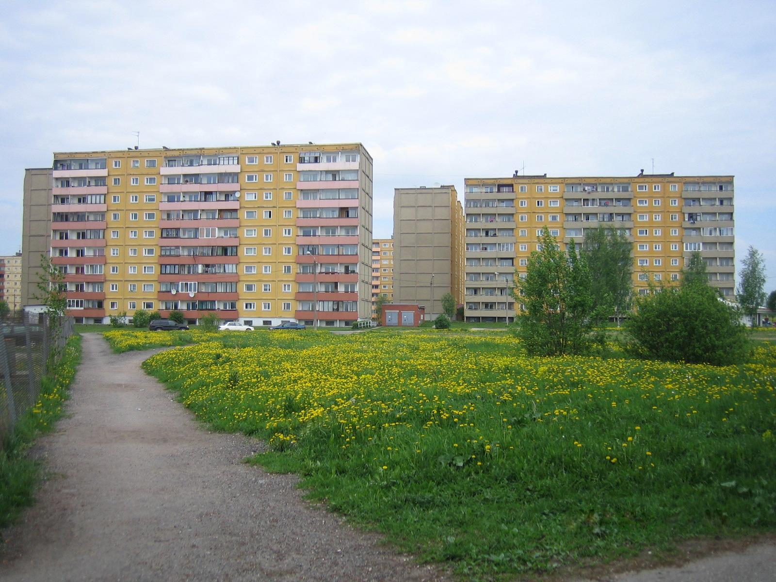 Annelinn - a quarter of Tartu